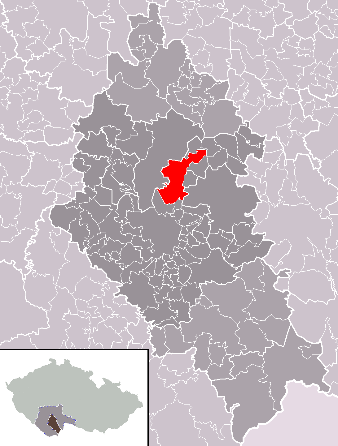 Location of Hosín municipality within České Budějovice District and administrative area of České Budějovice as a Municipality with Extended Competence.